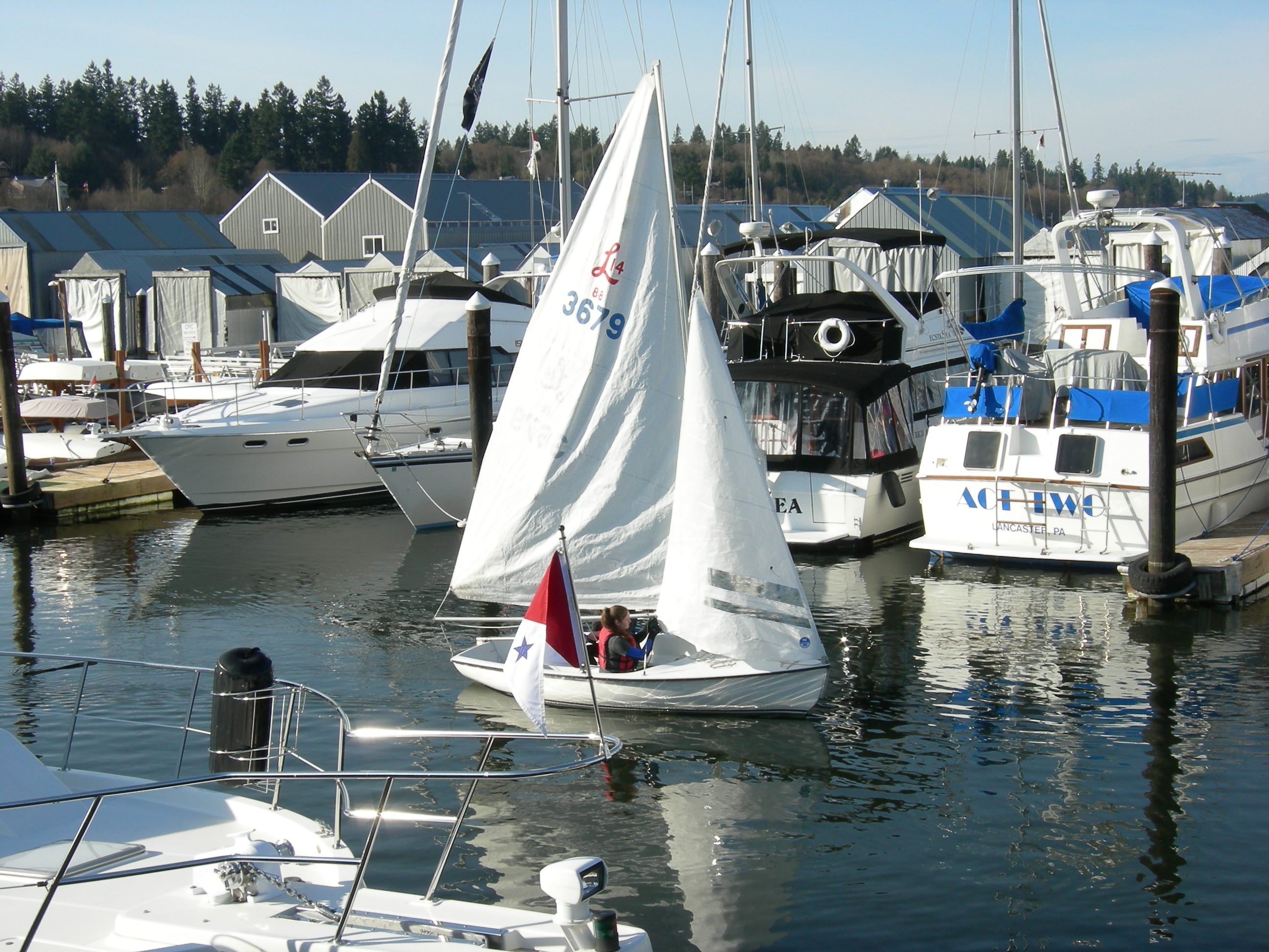 Low tide, Percival Landing Park, downtown Olympia, Washington. A sailboat tacks out.